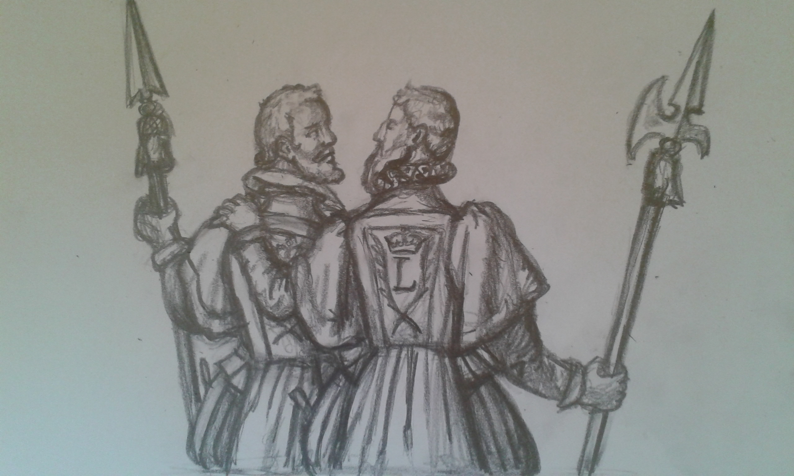 French Gardes Écossaises from the time of Louis XIII (after a print based on a drawing of François Quesnel from 1610)